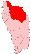 Map of Dominica showing Saint Andrew parish.